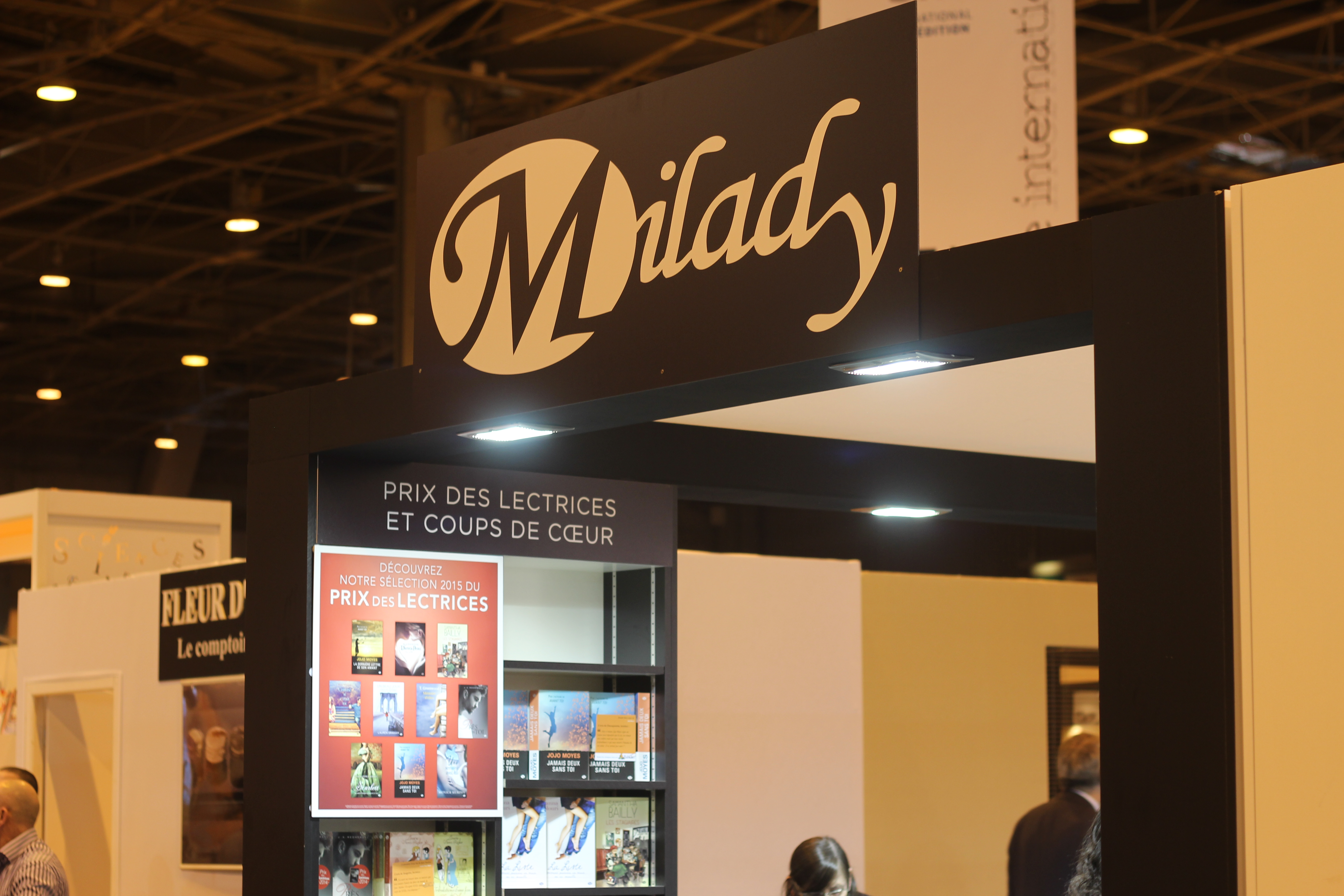 2015 Paris Book Fair, from 20 to 23 March 2015, Paris expo Porte de Versailles.